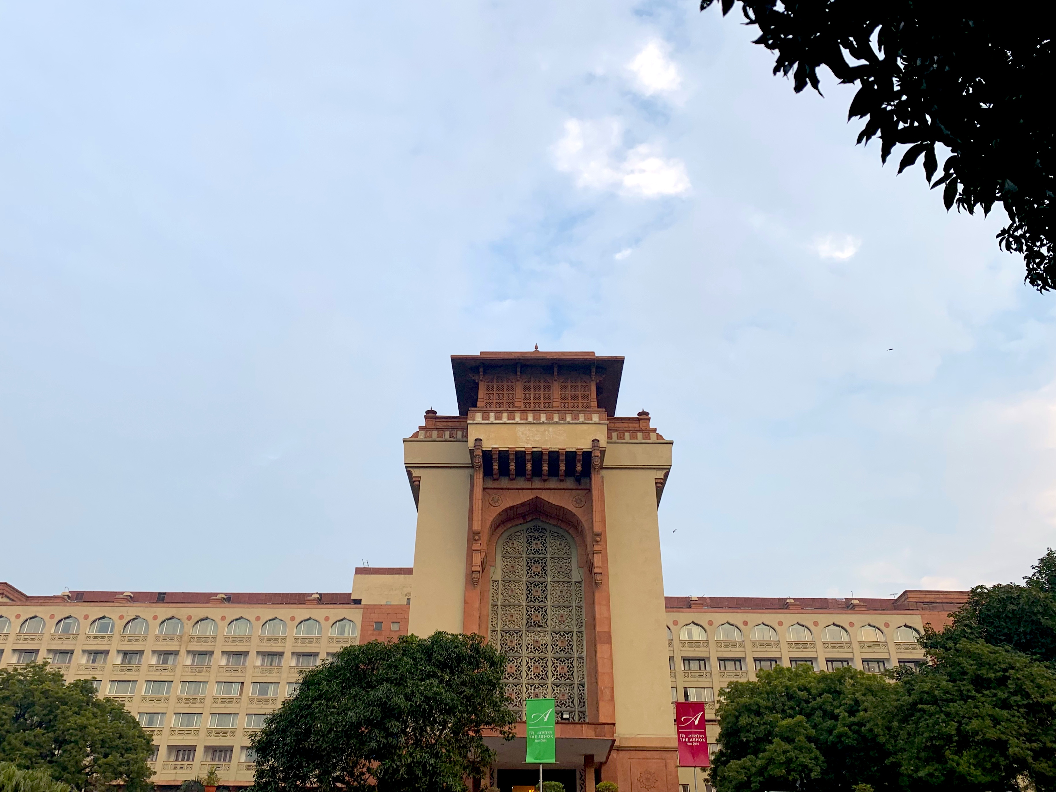 The front facade of The Ashok Hotel, New Delhi built by India's first prime minister Jawaharlal Nehru.